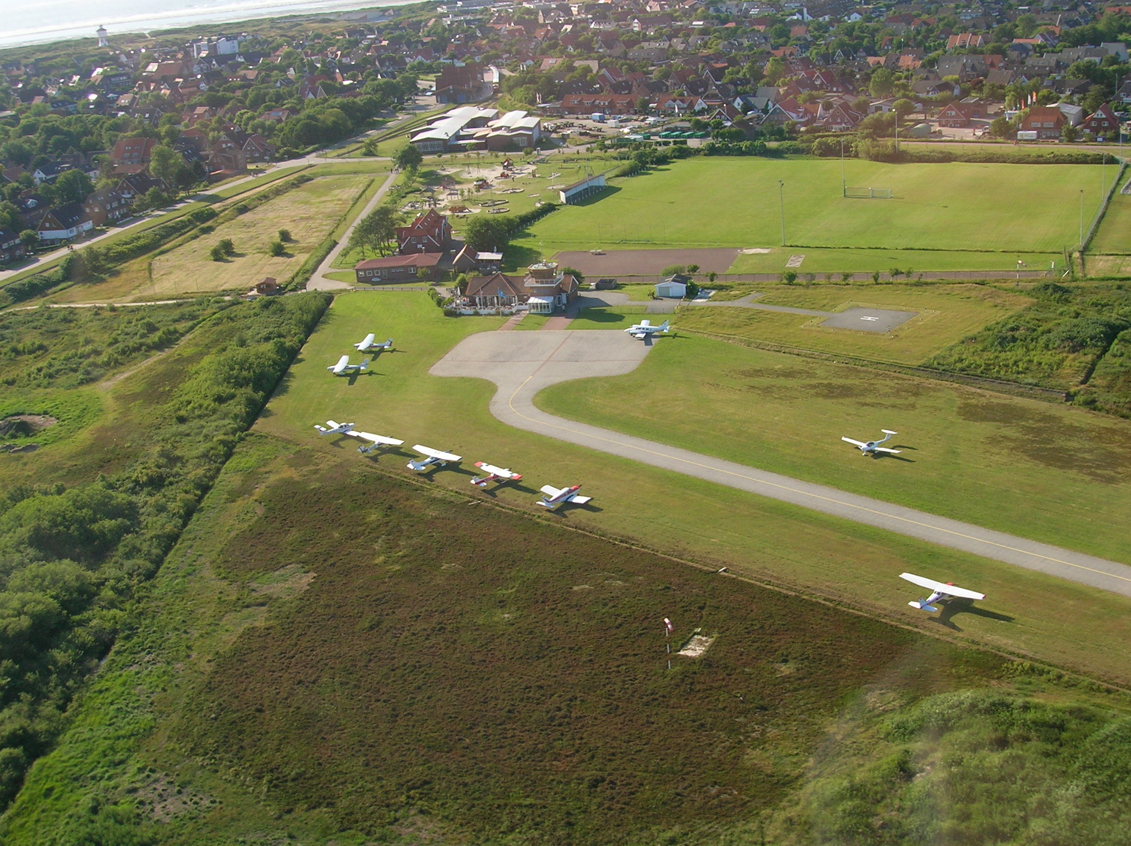 Langeoog Airport: apron, picture was taken after takeoff on runway 23 in approx. 500 ft.